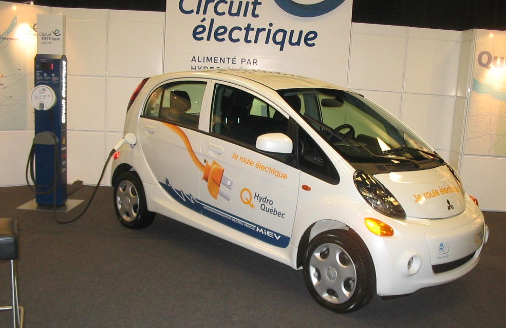 Mitsubishi i-MiEV Hydro-Québec photographed in Montreal, Quebec, Canada at the 2012 Montreal International Auto Show.